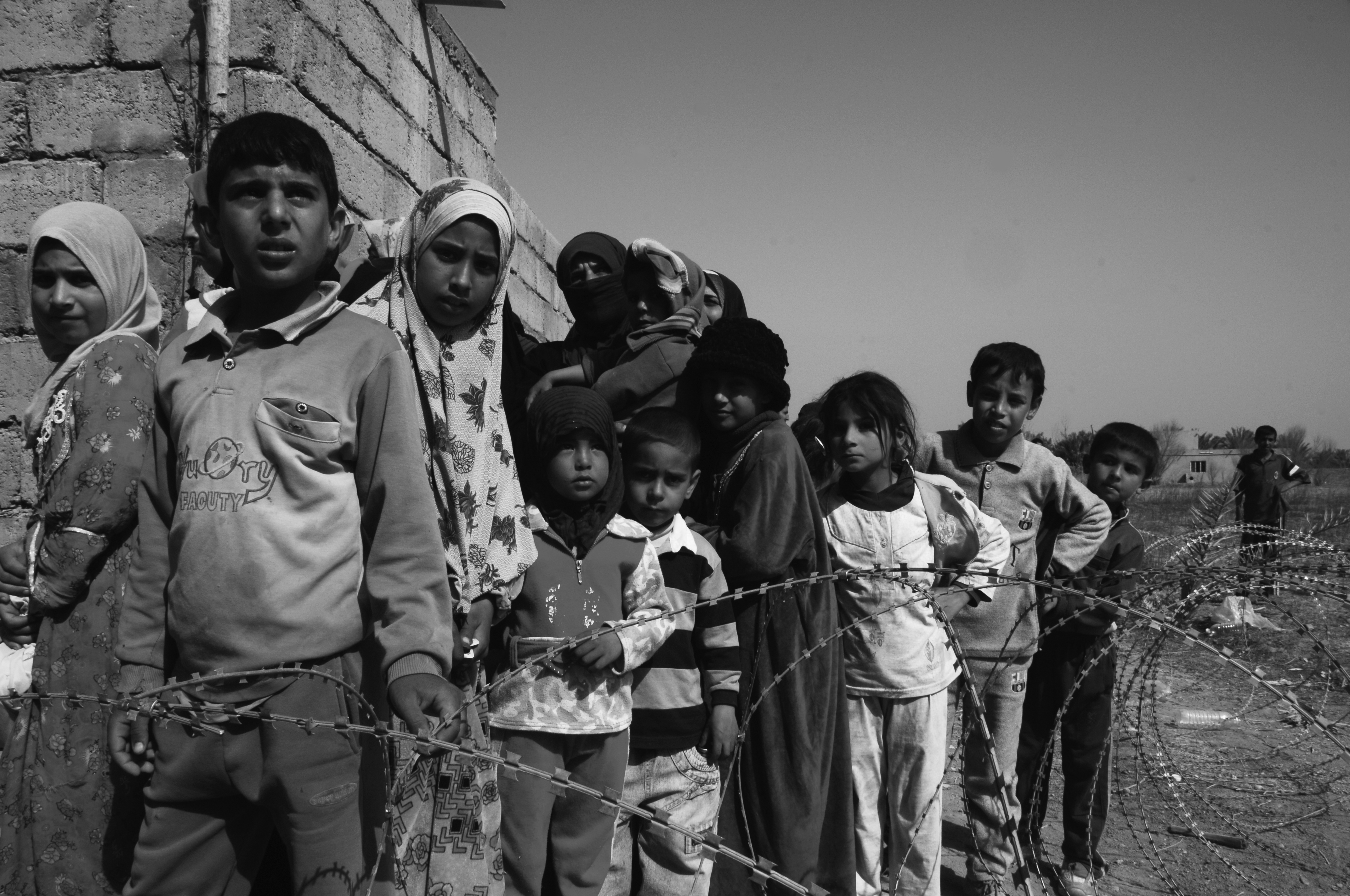 Local citizens from the Janabi Village wait their turn to gather goods from the Sons of Iraq (Abna al-Iraq) in a military operation conducted by 3rd Platoon, Charlie Company, 3rd Battalion, 187th Infantry Regiment, 101st Airborne Division, Yusufiyah, Iraq, March 02, 2008. (U.S. Army photo by Spc Luke Thornberry)